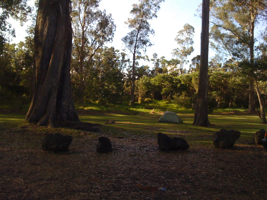 Namakanipaio Campground, Kilauea, Hawaii, United States